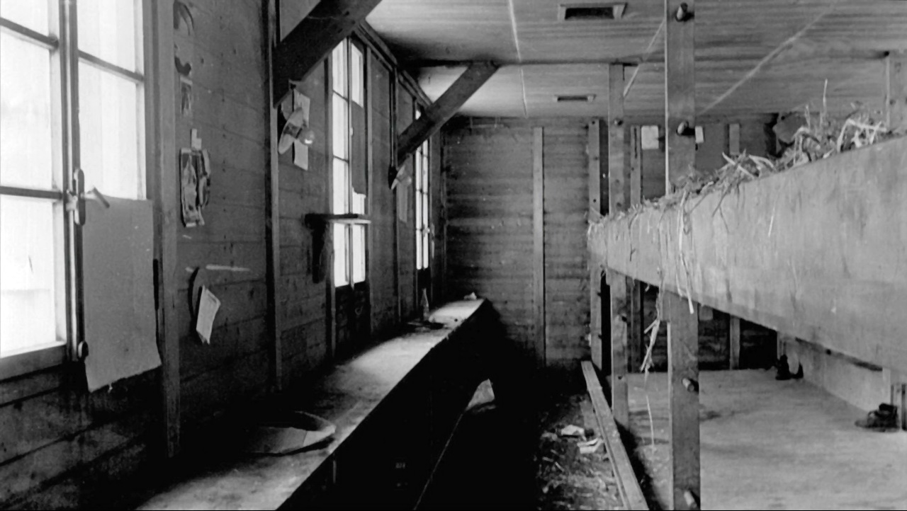 Wauwilermoos internment camp, interior of one of the internees' barracks, Egolzwil-Wauwil, Canton of Luzern.